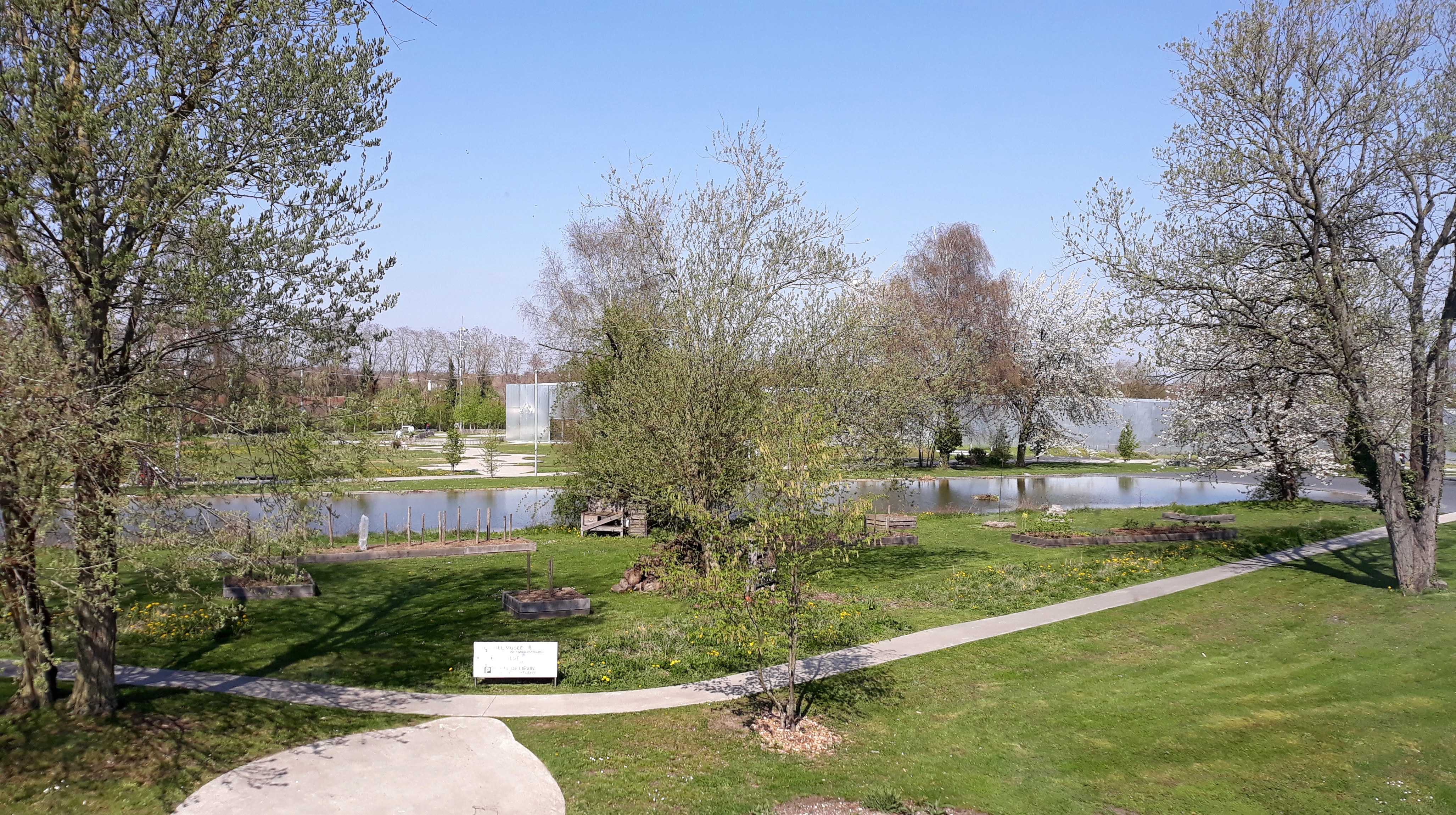 Louvre-Lens garden